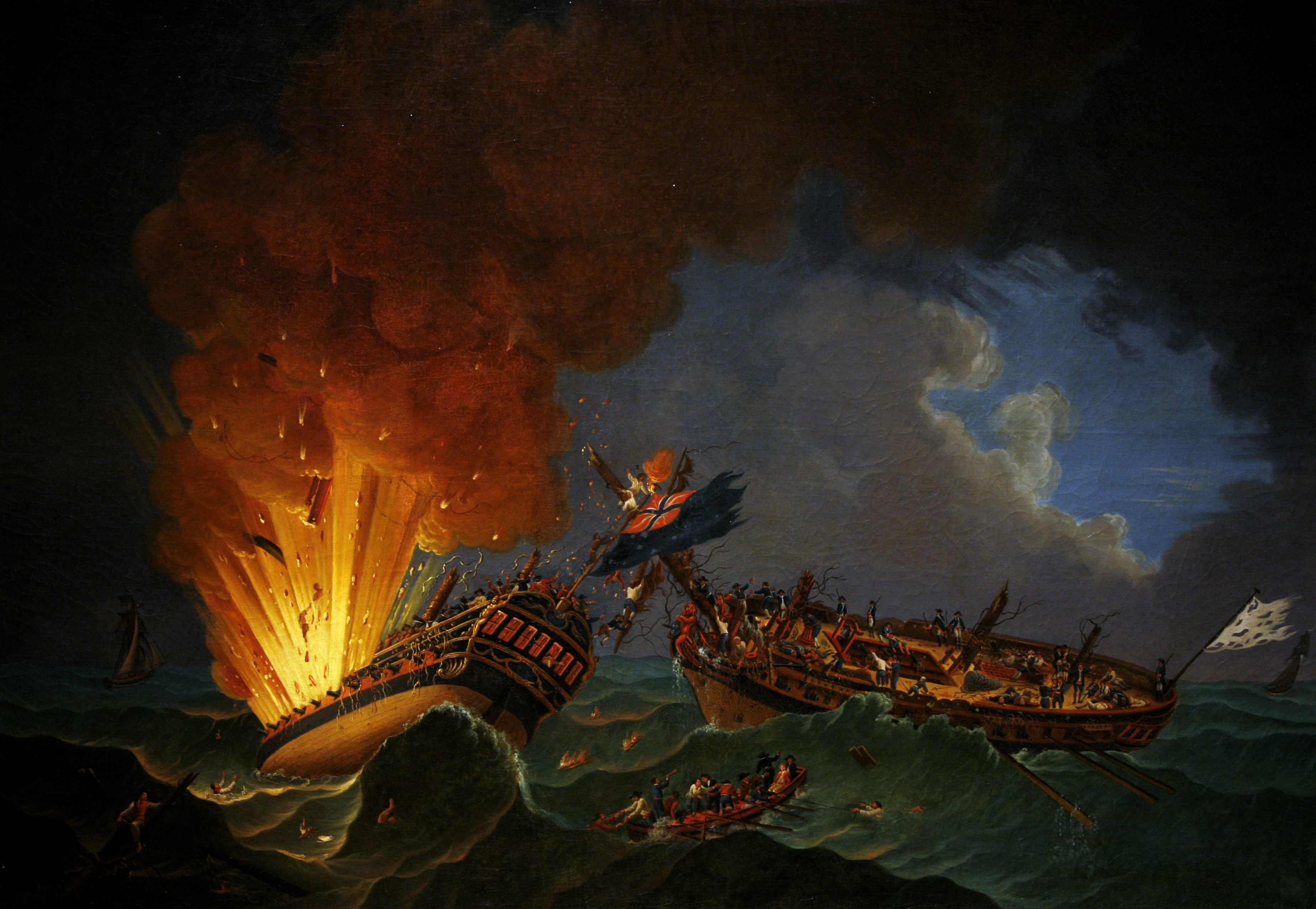 Artist Auguste-Louis Rossel de CercyDescription Battle between the French frigate Surveillante and the British frigate Quebec, 6 october 1779Collection Musée national de la Marine Native nameMusée national de la MarineLocationParisCoordinates48° 51′ 43″ N, 2° 17′ 15″ E Established1827Web page control : Q1286709 VIAF: 19144648200974718522 ISNI: 0000 0001 2259 2914 LCCN: n50055356 Museofile: M5026 WorldCat institution QS:P195,Q1286709Accession number 3 OA 12Source/Photographer MedOther versions Battle between the French frigate Surveillante and the British frigate Quebec, 6 october 1779